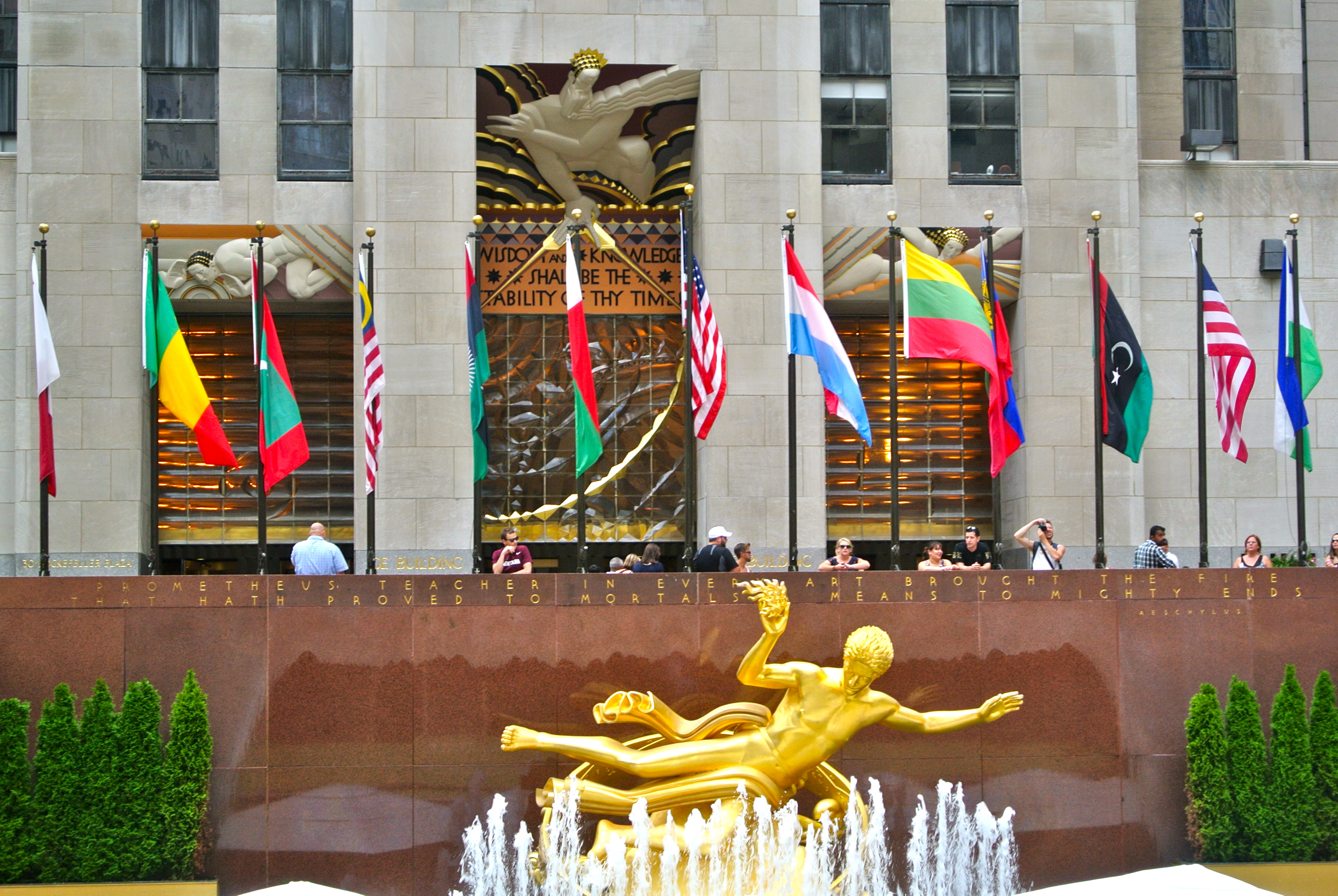 Rockefeller Center